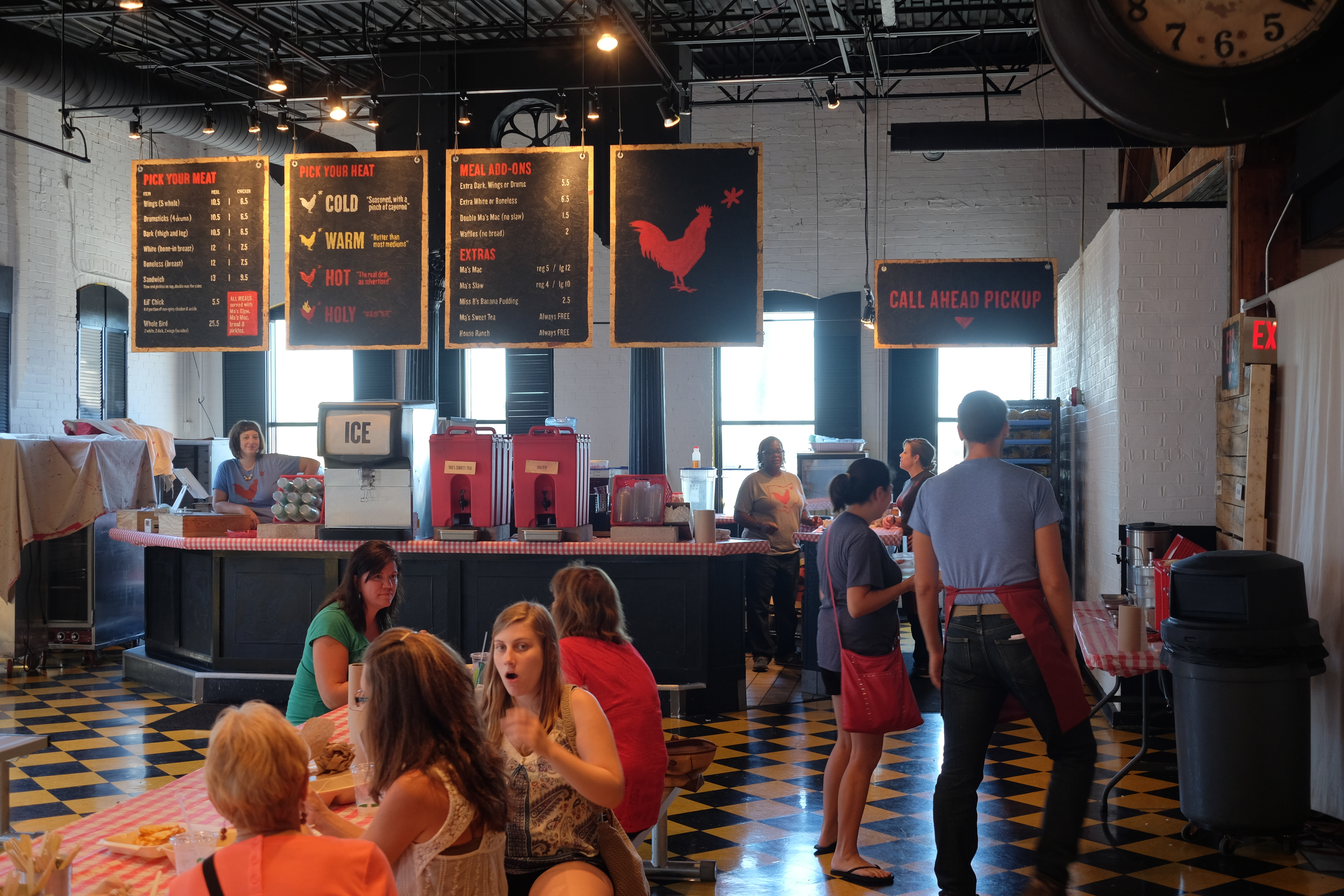 Hot Chicken takeover has become a local sensation. What started out as a pop-up in the East Columbus neighborhood of Old Towne East is now a full service restaurant in North Market.